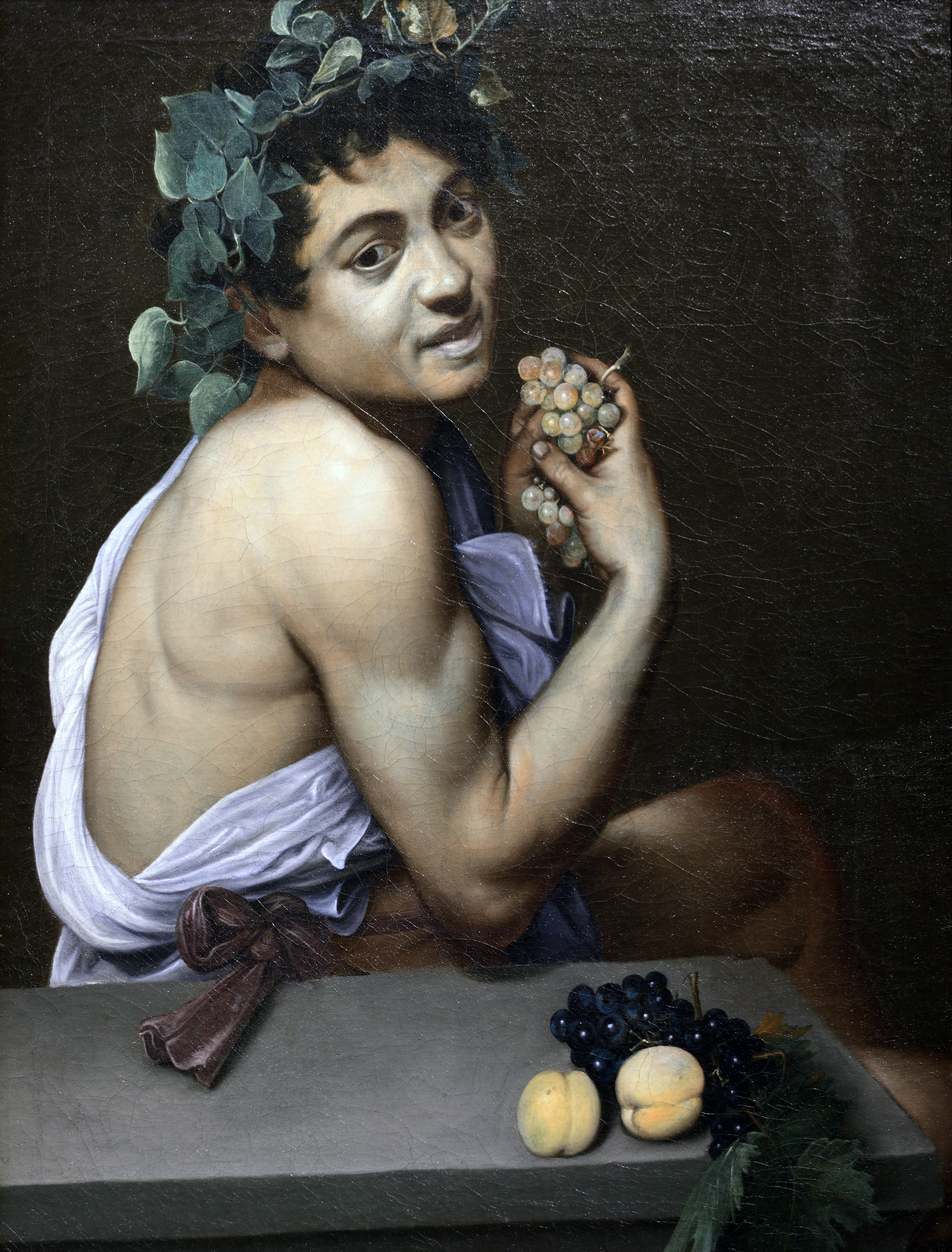 Sick young Bacchus by Caravaggio